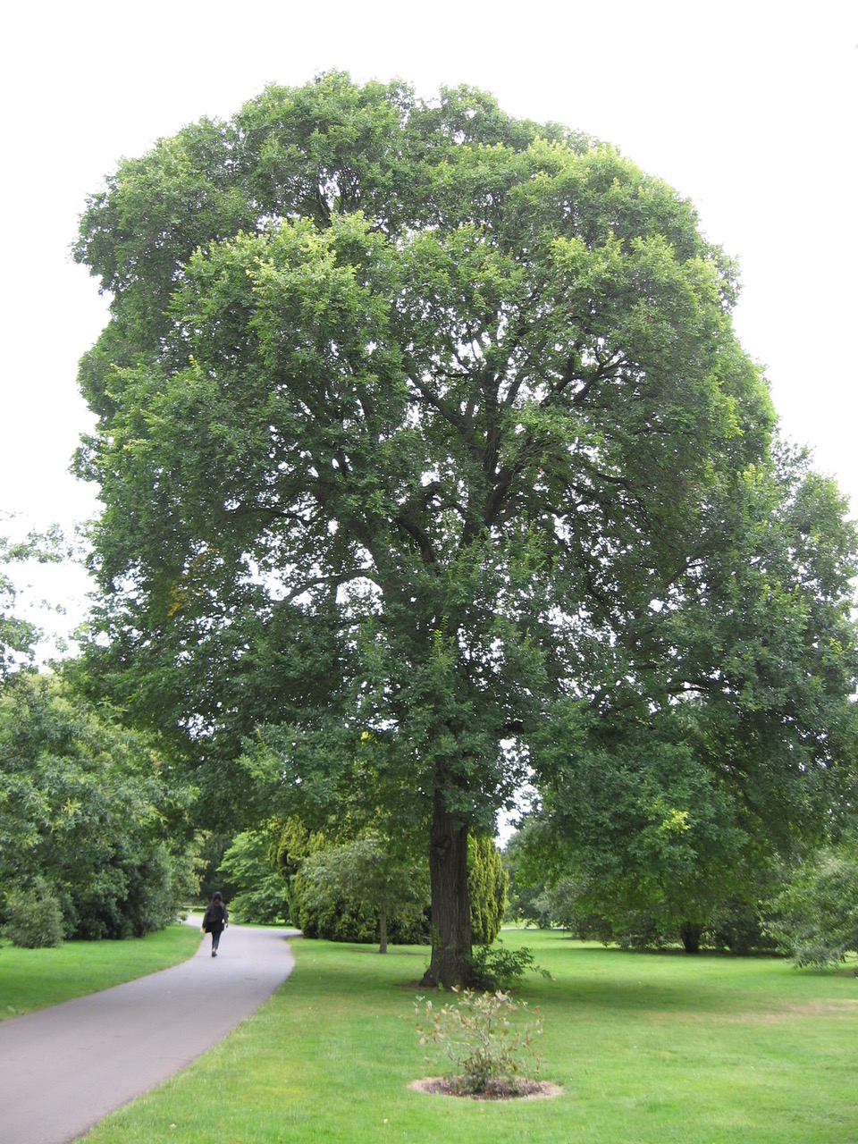 Ulmus Karagatch USDA 34063 (Kew Gardens, London) 070819c